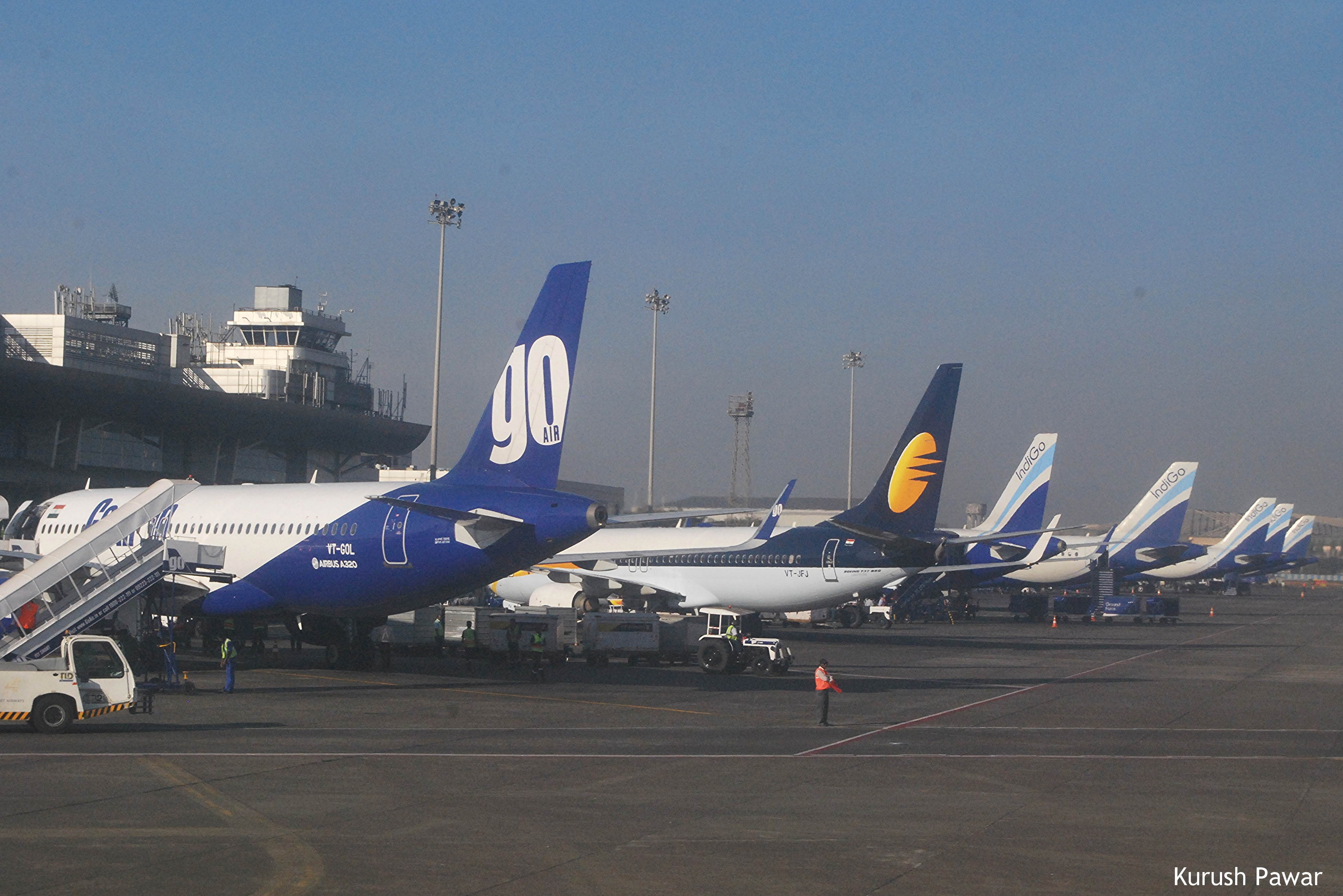 Taxiing past the domestic airport terminal on arrival at BOM after exiting runway 27. Aircrafts visible are GoAir (VT-GOL), Jet Airways (VT-JFJ) and a host of IndiGo aircraft.